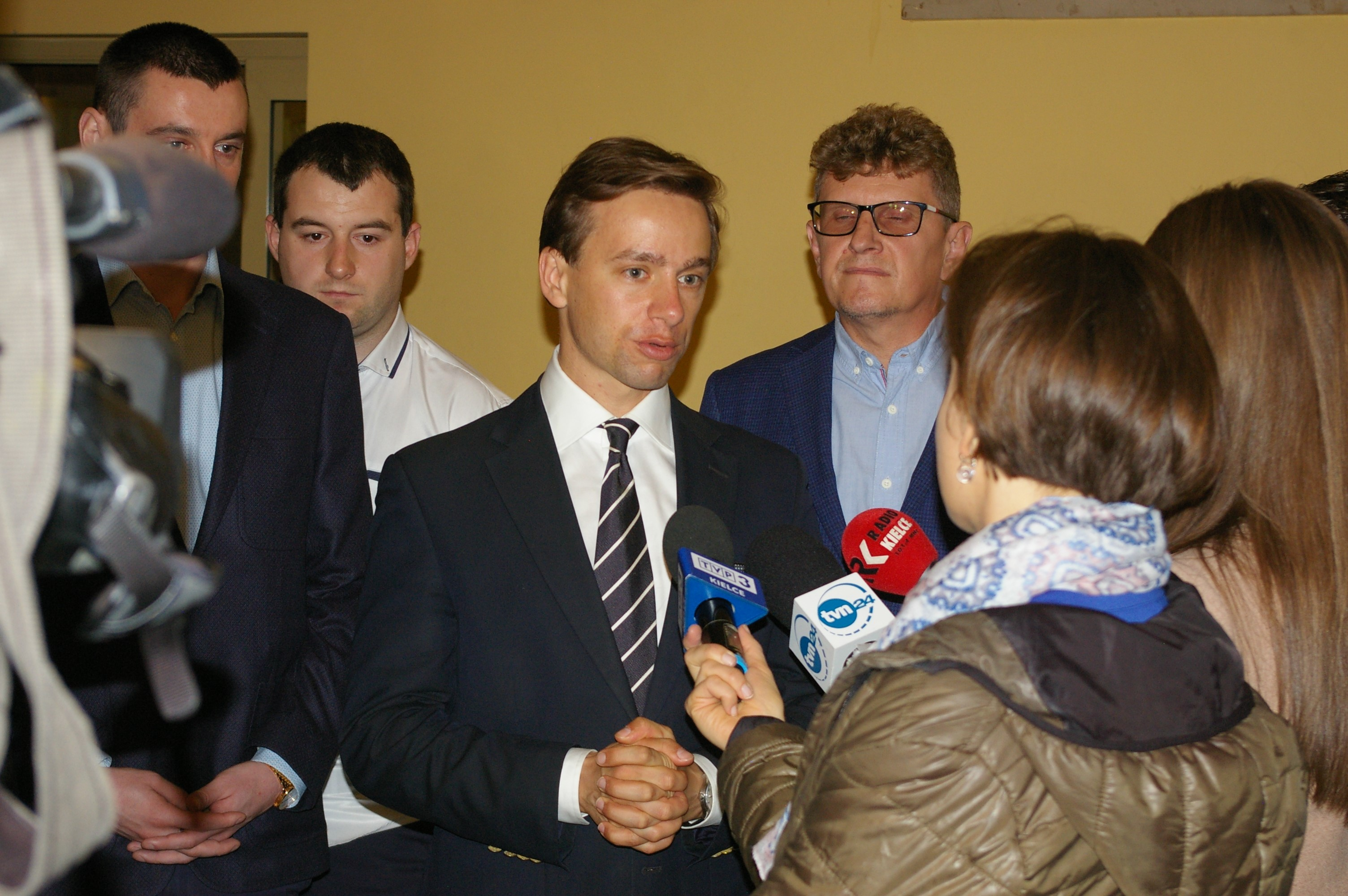 Krzysztof Bosak - Polish politician, president of the All-Polish Youth in 2005–2006, MP in the Fifth Term Sejm, candidate. ELECTION COMMITTEE. CONFEDERATION FREEDOM AND INDEPENDENCE in the Sejm elections. Kielce, Craft House, election meeting, September 27, 2019.